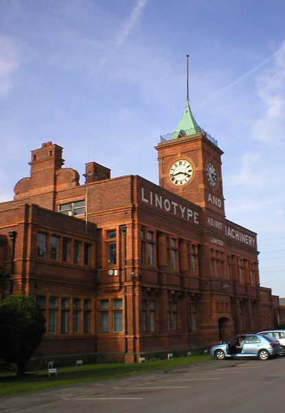 Linotype Building